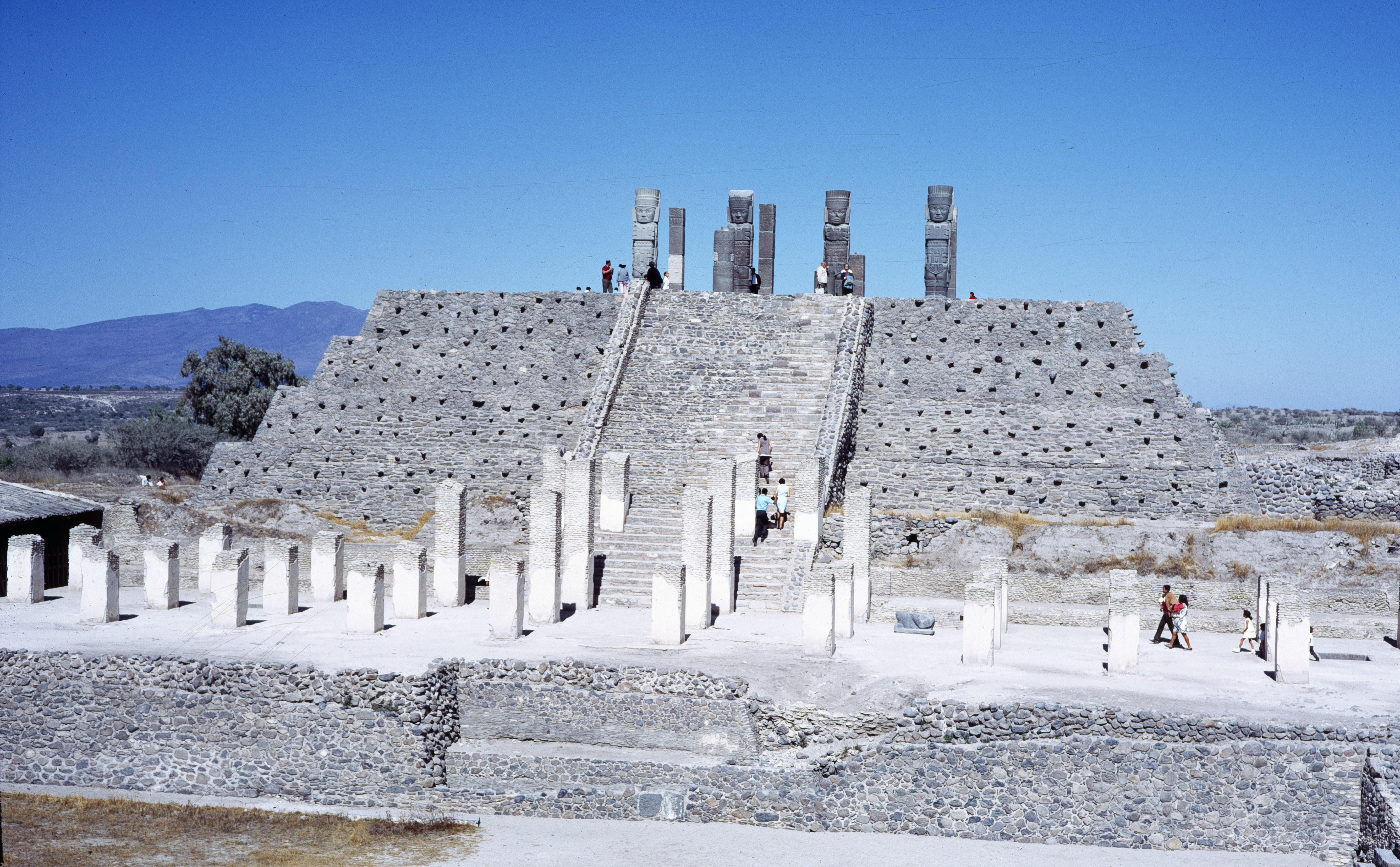 Tula, Hidalgo, Mexico: Tehuicalpantecuhtli-Pyramid